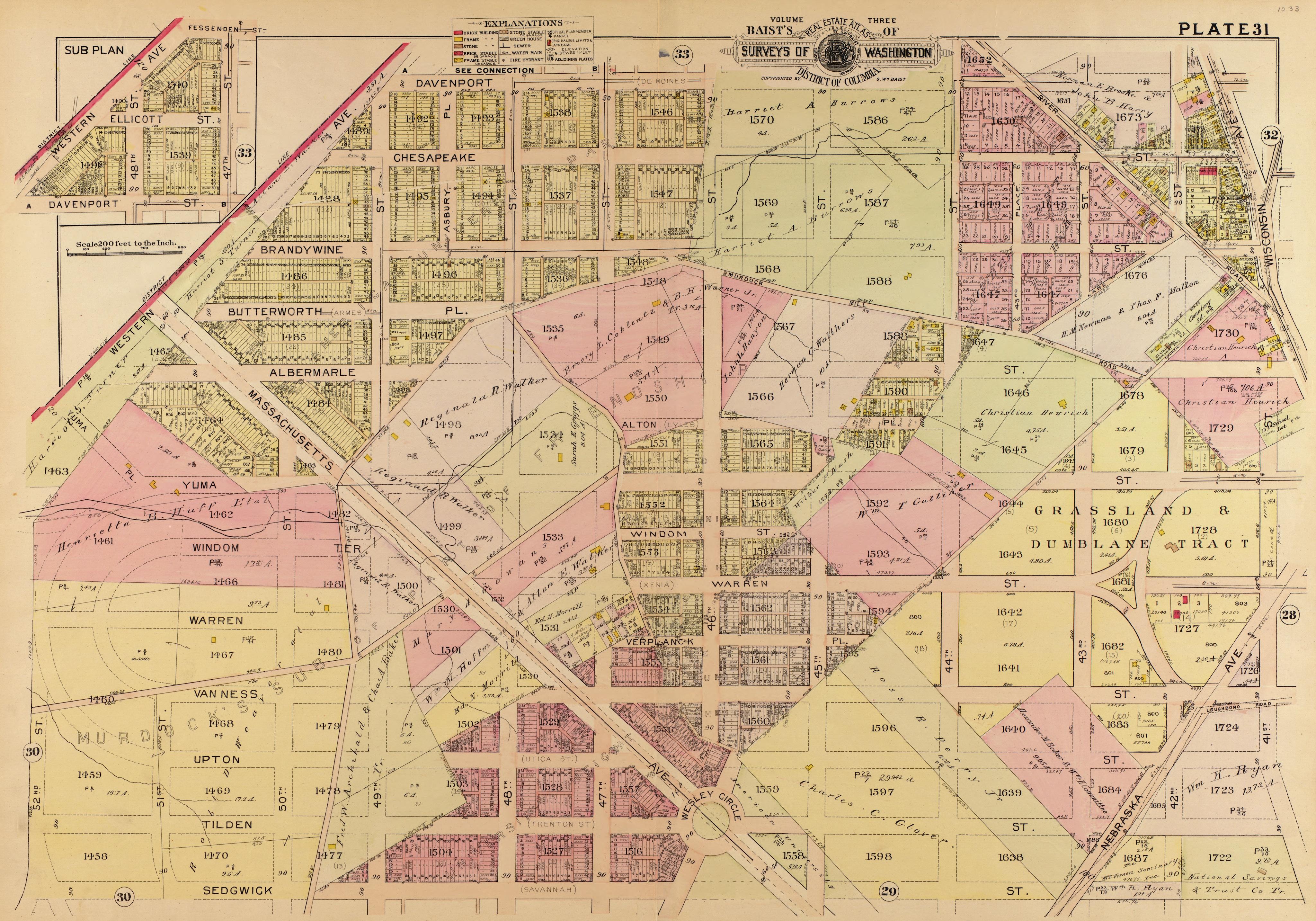 Map of area around American University and Spring Valley in Washington, DC from 1919.